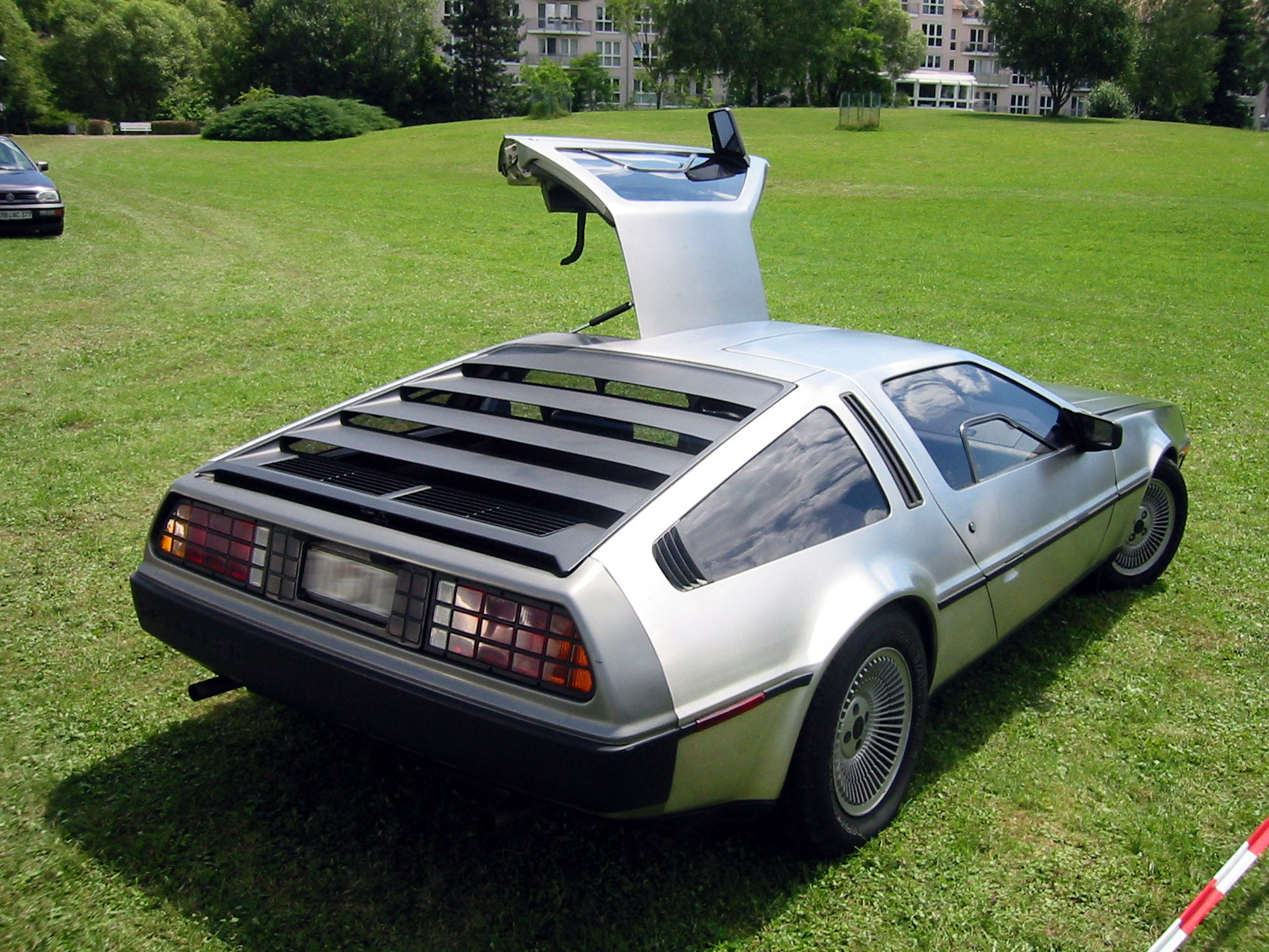 De Lorean DMC12